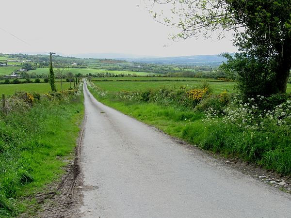 Straight Country Road Straight unclassified road leading to Freneystown village.